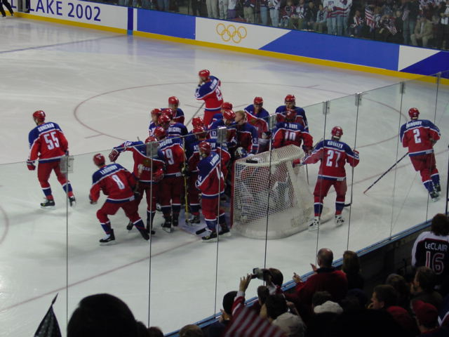 The Russian men's ice hockey team huddles before a game at the 2002 Winter Olympics.